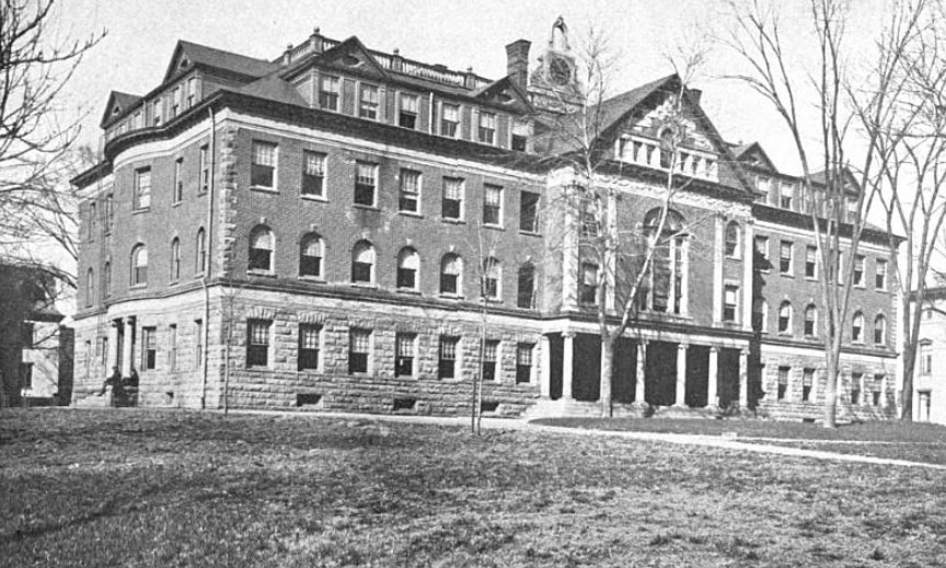 Photograph (circa 1901) of Winants Hall (a dormitory built 1890, now administrative offices) on the Queen's Campus of Rutgers College (now Rutgers, The State University of New Jersey). Unknown photographer. Other information This book can be found at Google Books